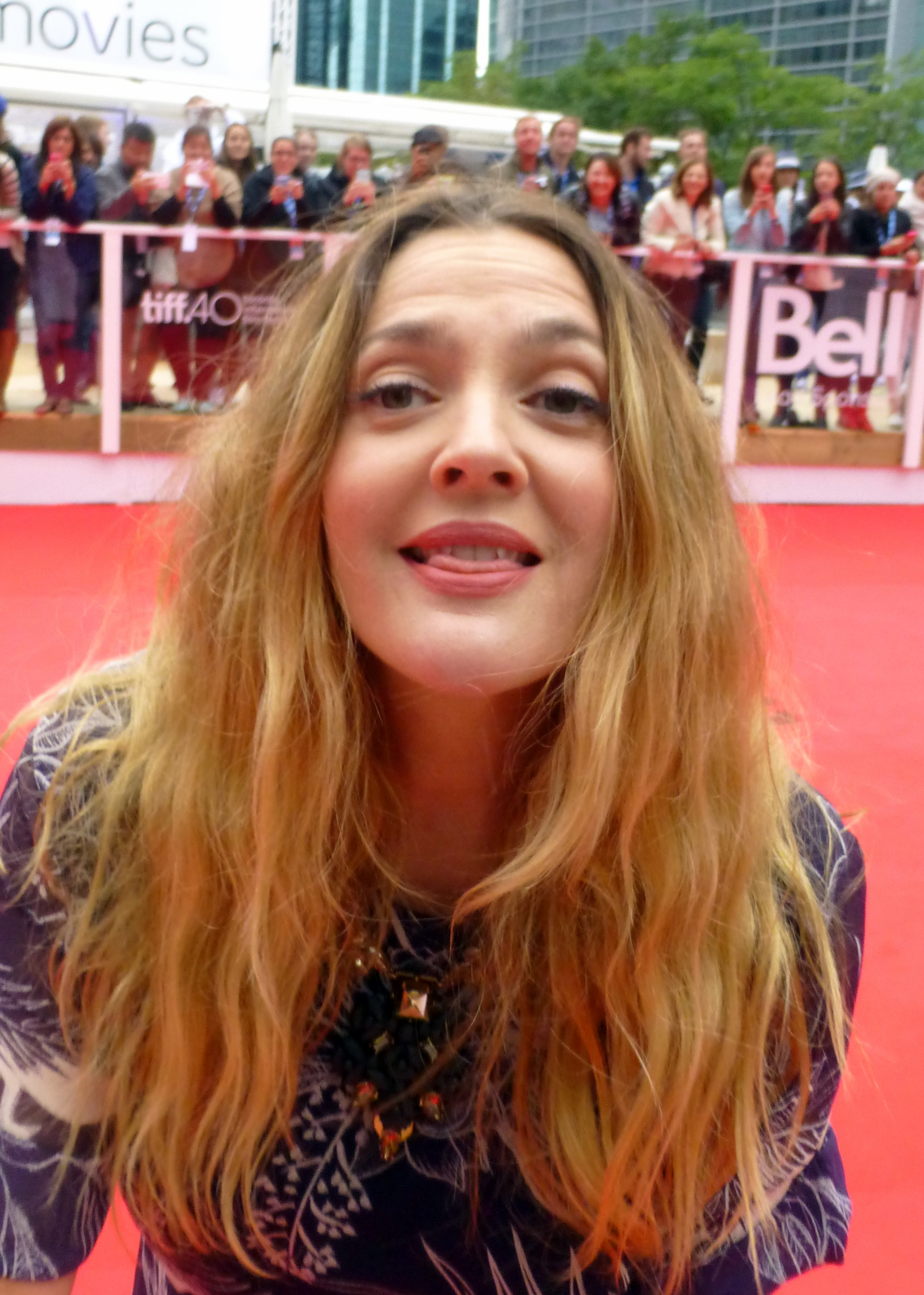 Tongue shot. Drew Barrymore at the premiere of Miss You Already, 2015 Toronto Film Festival